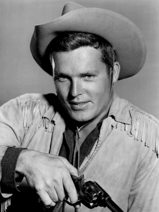 Photo of Ty Hardin as Bronco Layne from the television program Bronco.